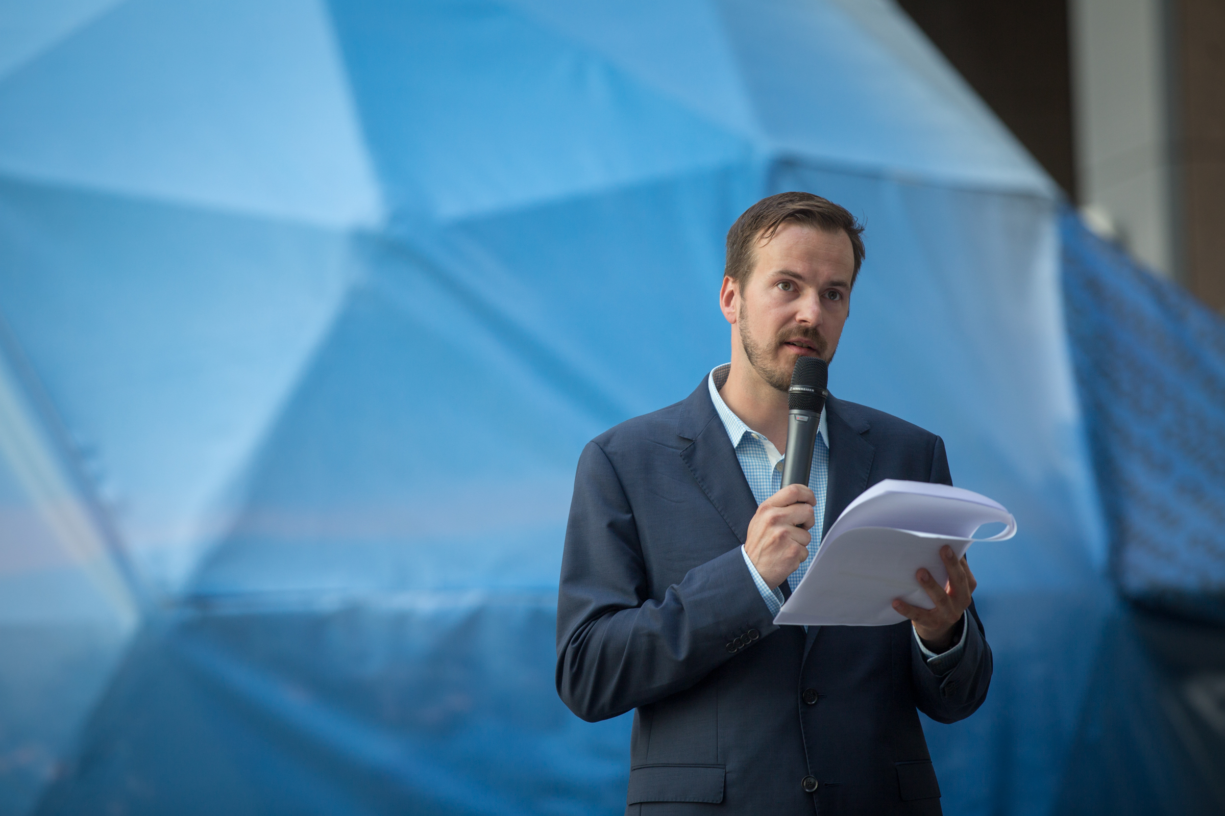 Taavet Hinrikus gives a speech. Opening of the 'Unity' dome in Justus Lipsius building